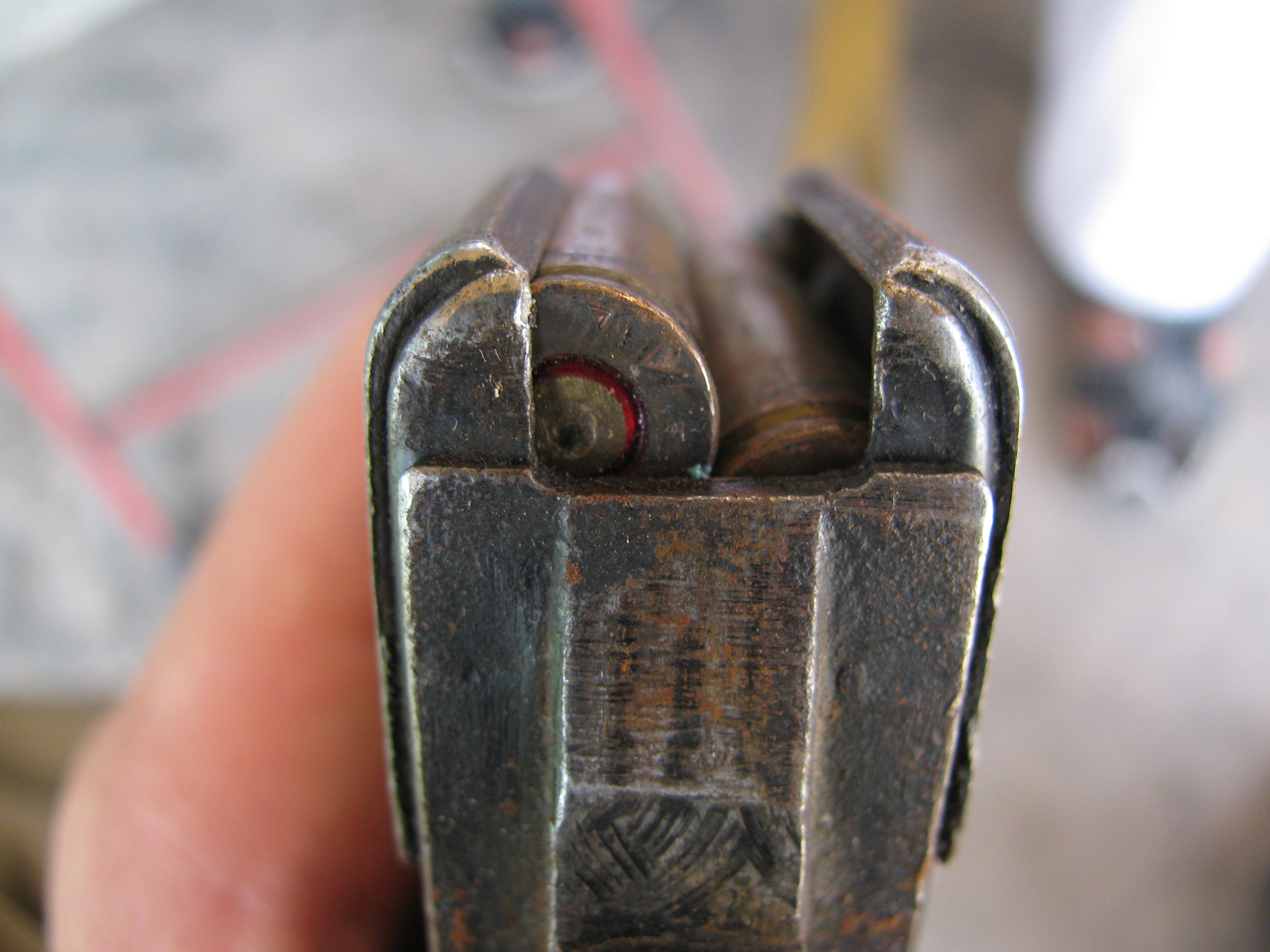 First thing I notice pulling out his magazine is he's manually reloaded a number of the rounds. I was hanging out with the security guards, and one of them is quite the grizzled warrior. He has bullets wounds from both Russians and Taliban. I was chatting with him about weaponry, and the differences between Chinese/Russian/KyberPassCopies came up. He pulled out his magazine and went through the rounds, and identified them by sight as being from either Russia, China, or Pakistan. The Pakistan ones, in his humble opinion, are crap, with the Russians being the best. If found this interesting, because there was obvious corrosion on the jackets of the Russian ones. He stated the insides were perfect. I asked how he knew for sure... At which point he manually extracted the bullet from the jacket and dumped the powder out on a piece of paper so he could examine it. I can't tell you what parameters he was judging... the finer points of inspecting the interior of 7.62x39 rounds escape me... by the time the bullets leaving the jacket I prefer to be far, far away.